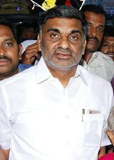 கே. சி. வீரமணி